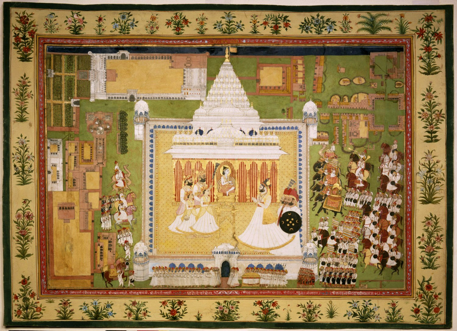 Bulaki (attr.) Maharaja Man Singh of Jodhpur Visits the Mahamandirю 1815, Philadelphia Museum of Art